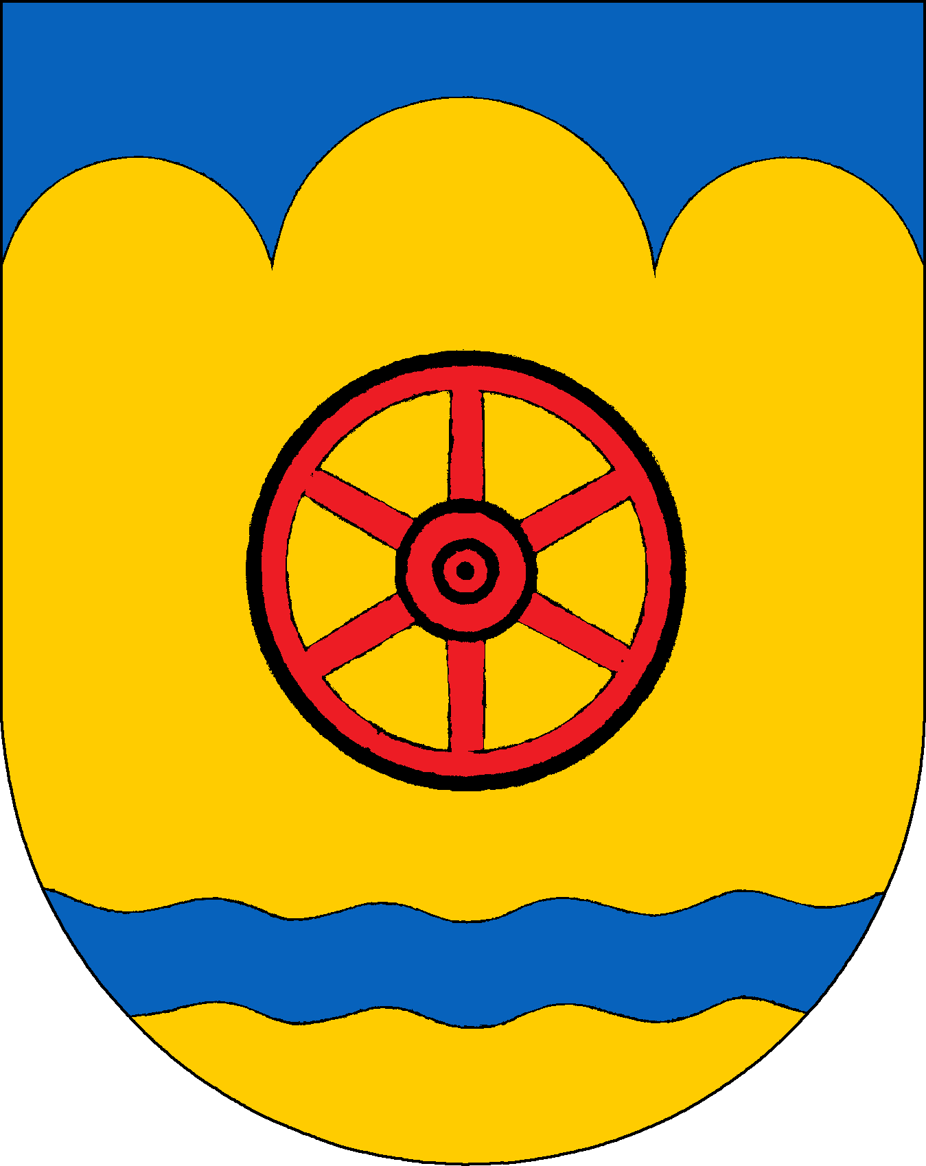 Coat of arms of the municipality Enge-Sande in Schleswig-Holstein, Germany.